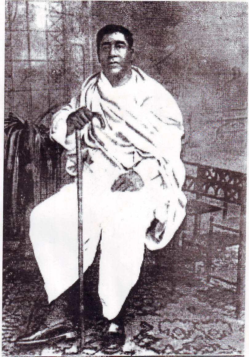 The photograph shows a photo of Kunjeswar Misra, a famous disciple of Tibbetibaba ( a famous Bengali philosopher saint of India).The photograph was shot in India more than 60 years ago.The person depicted in the photo was an allopathy medical practioner by profession.The writings of Kunjeswhar Misra include books named Tibbatibabar Atmaparichay , Chanditatve Ved O Vigyan , Ramayan Bodh Ba Balmikir Atmaprakash and Gleanings from Ramayana, Ramayan Bodh, and Adhyatatva Koumudi: Raasleela Prabhriti Prabandhabali.' Information about the saint can be obtained from the following books(the books are published in Bengali language in India): 1) Bharater Sadhak O Sadhika.This book is written by Sudhanshu Ranjan Ghosh.It is published in India by Tuli Kalam Publication. Address: 1, College Row, Kolkata – 700 009. India 2) Bharater Sadhak – Sadhika (Volume 1).This book is written by Subodh Chakravorty.It is published in India by Kamini Publication. Address: 115, Akhil Mistry Lane, Kolkata – 700 009 India. 3) 'Paramhamsa Tibbati Babar Smriti Katha'published by Tibbetibaba Vedanta Ashram,Taantipara Lane,P.O. Santragachi,Howrah - 711 104